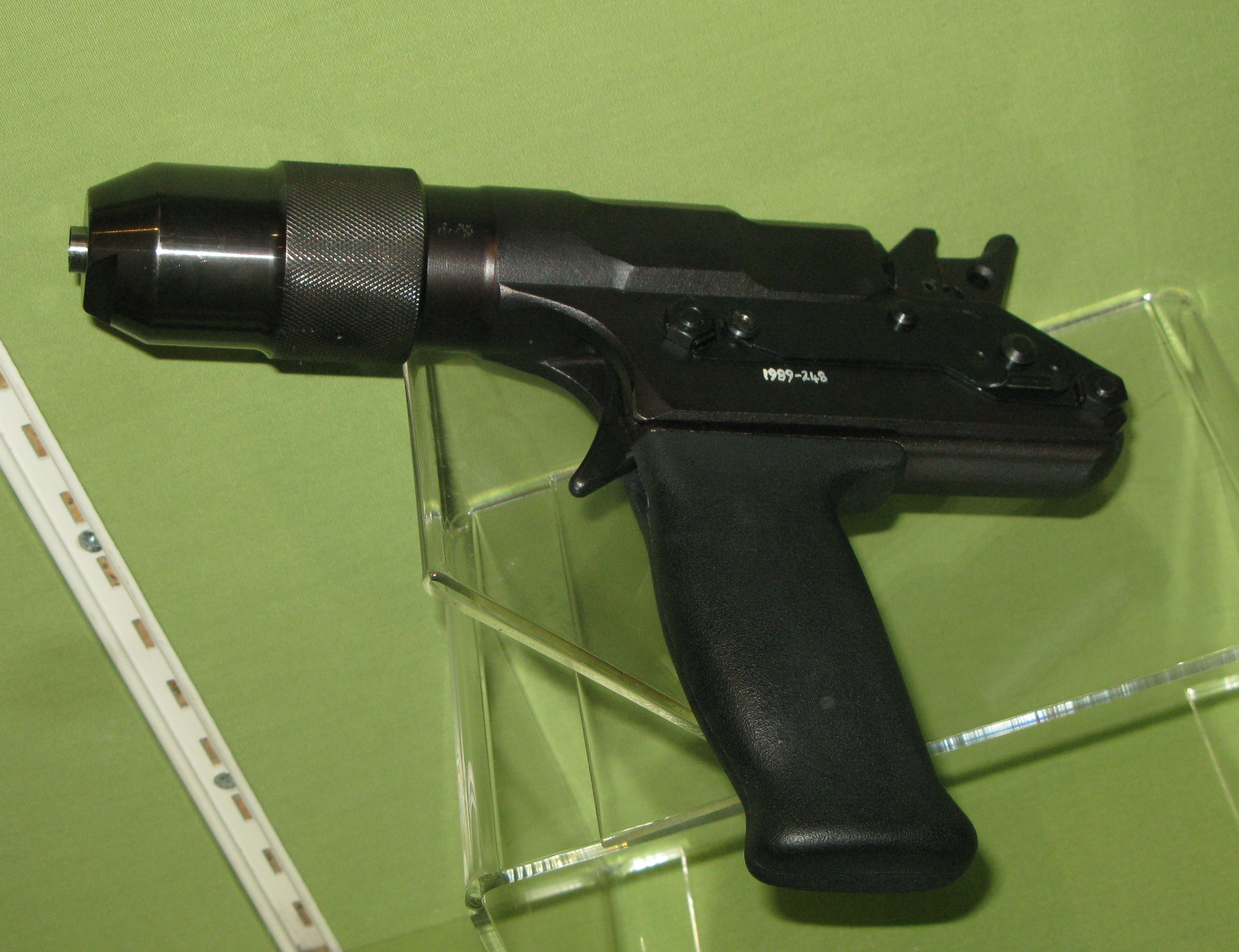 Photo of a captive bolt pistol / bolt gun